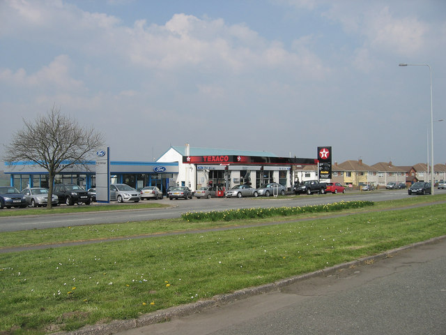 Port Road, Barry. Located on The Busy A4050 Port Road, P W Miller are a long established car dealership and Petrol retailer.